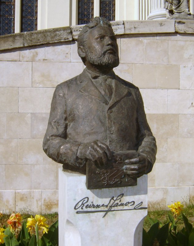 János Reizner (1847-1904) Jurist, archeologist, histoigrapher and director of the museum in Szeged.